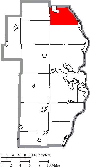 Map of the municipal and township boundaries of Jefferson County, Ohio, United States, as of the 2000 census, with the location of Saline Township highlighted. Township borders are shown only in unincorporated areas in order to differentiate incorporated and unincorporated areas more clearly.